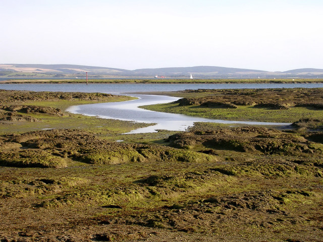 Tidal mudflats near Inchmery House, Lower Exbury. In the foreground are the tidal mudflats with the small Exbury River winding its way to join the larger Beaulieu River where it exits into the north Solent. On the far side of the Beaulieu River is the bird sanctuary of Gull Island, and in the distance the chalk downs of the Isle of Wight.